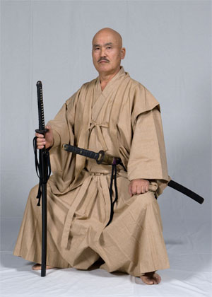 Photography of Obata Toshishiro, Shinkendo founder